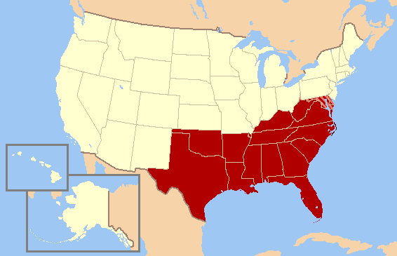 Map of the what the Southern United States as defined by the U.S. Census Bureau. The striped states (Maryland and Delaware) and Washington D.C. are now often considered part of the Northeast and/or Mid-Atlantic by many other sources, public and private, due to economic, demographic, cultural, and political alignments.